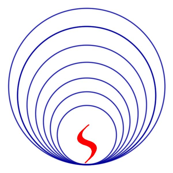 Impression of logo used by Osho movement, early 1970s. (Life Awakening Movement, Jeevan Jagruti Andolan)